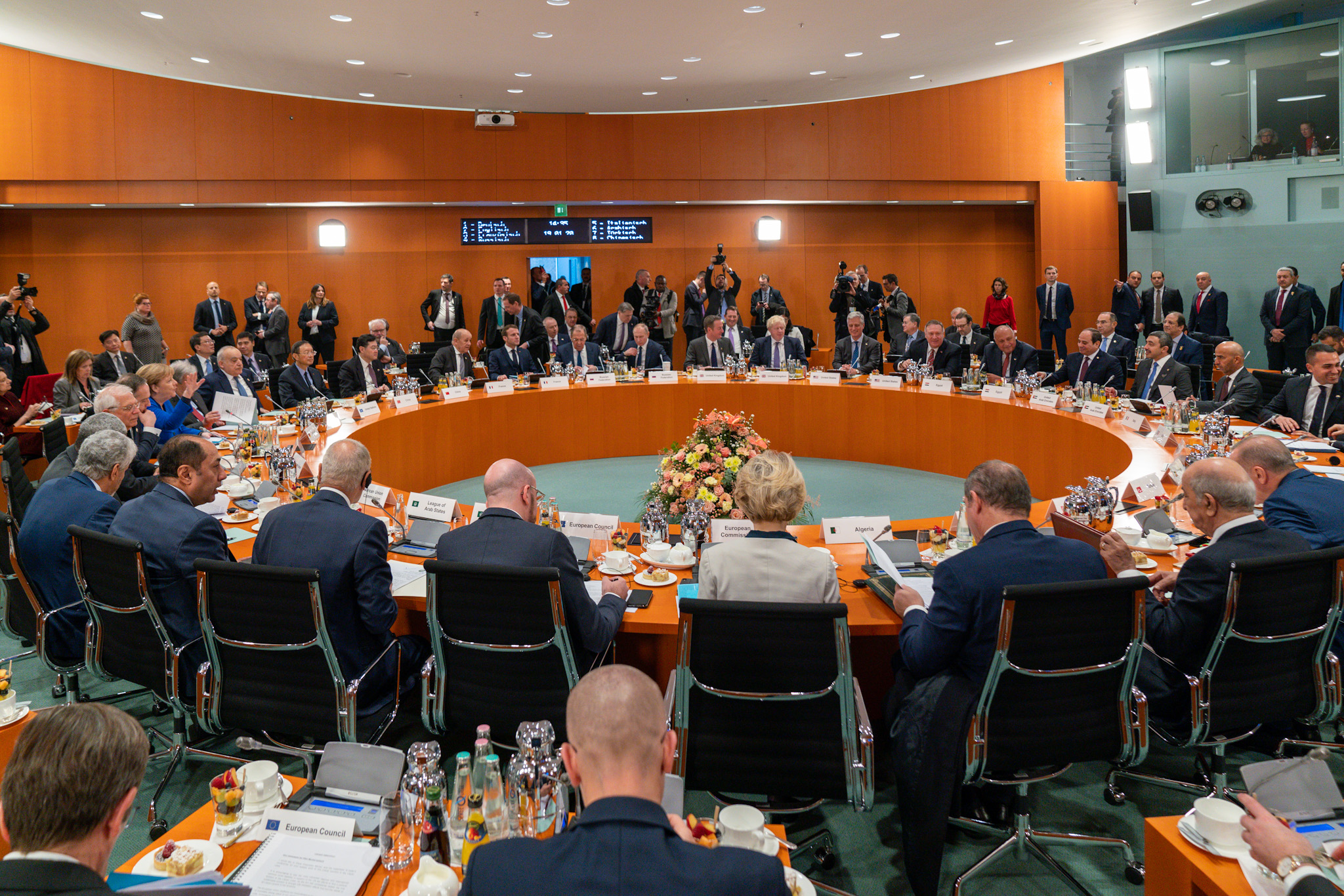 Secretary of State Michael R. Pompeo attends the Libya Summit in Berlin, Germany, on January 19, 2020. [State Department Photo by Ron Przysucha/ Public Domain]